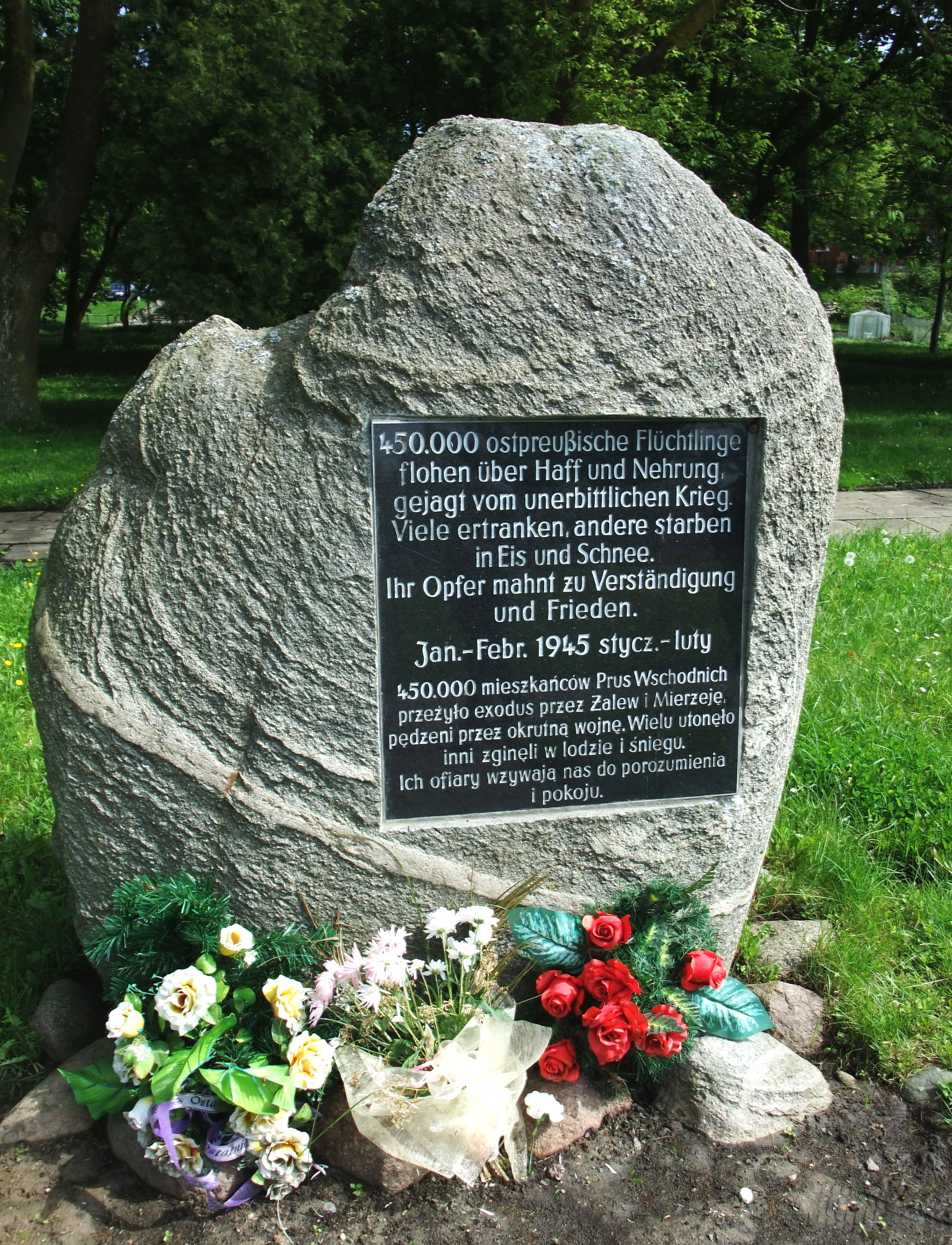 Memorial of Refugees in Frombork, Poland